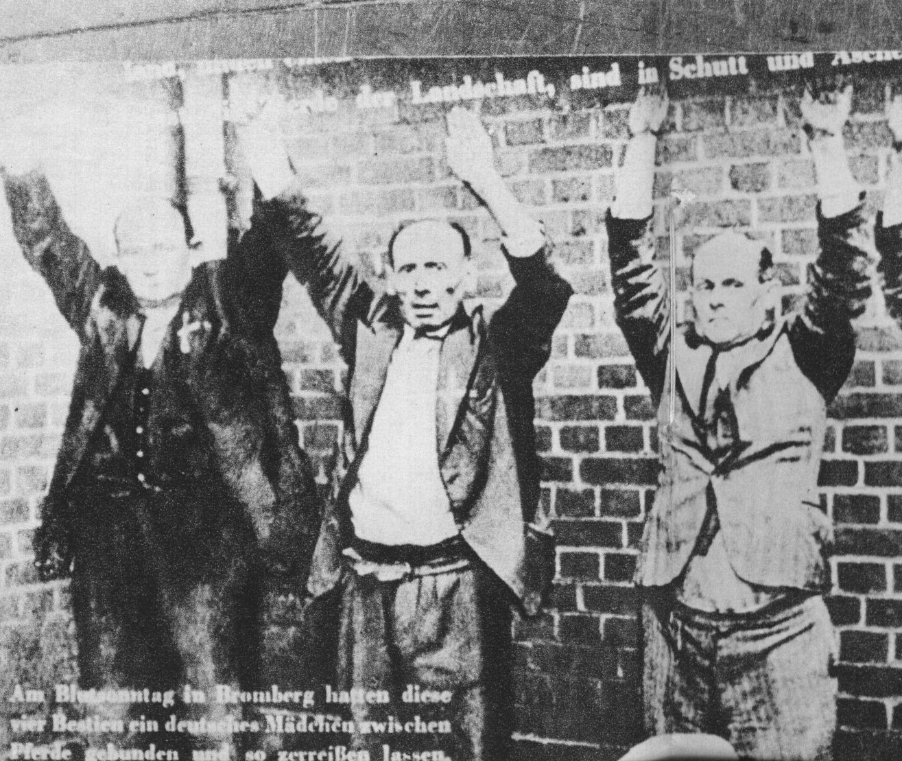 German-occupied Bydgoszcz, first days of September 1939. Polish men photographed before the execution. Cross mark at their coats mean that they were identified by local Germans as an alleged participants in the events of so-called "Blody Sunday in Bydgoszcz" (de: Bromberger Blutsonntag). This photo was probably taken in the artillery barracks at 147 Gdańska Street in Bydgoszcz.